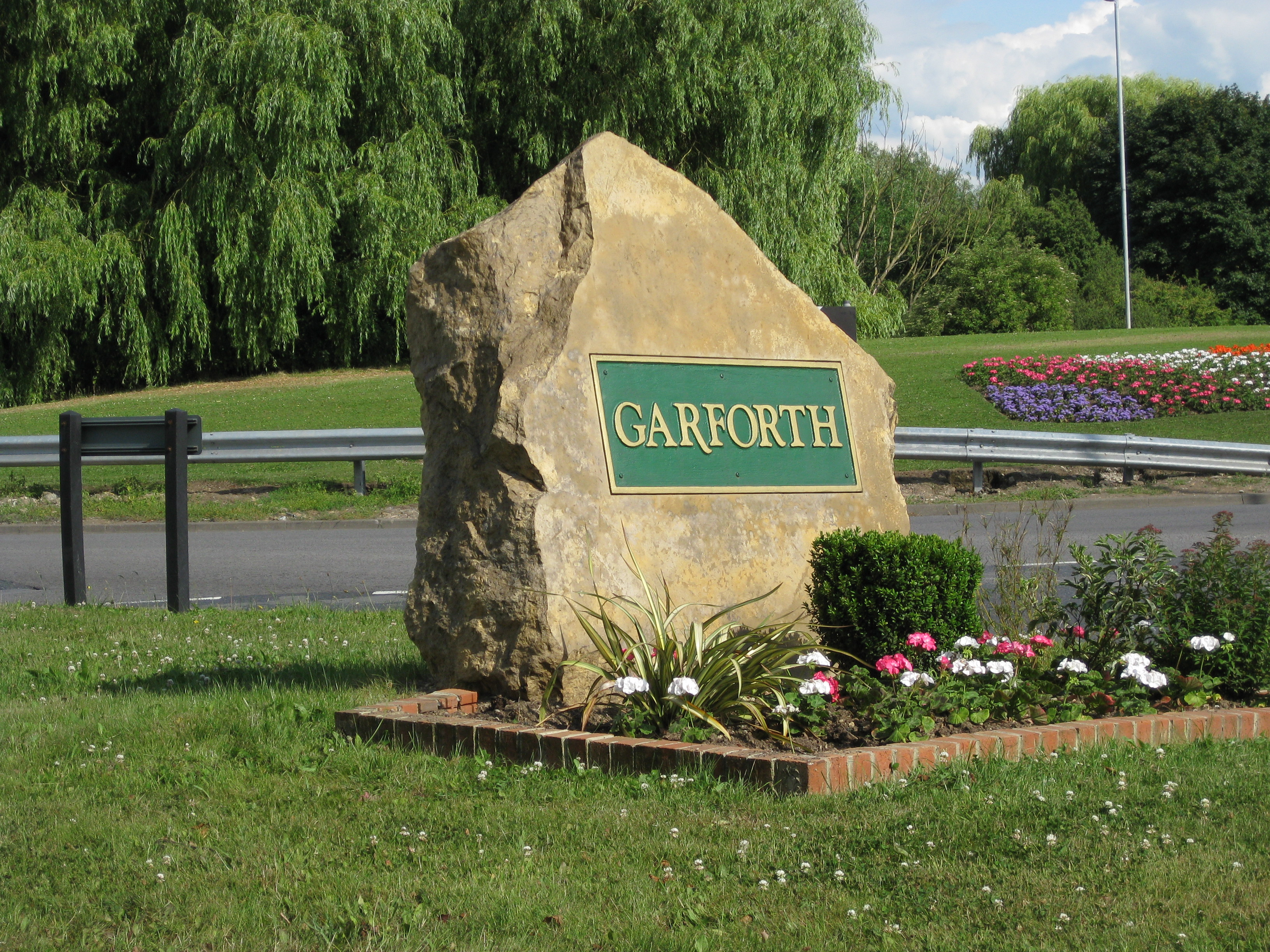 Stone sign at boundary of Garforth, Leeds, on the A63 Selby Road going East